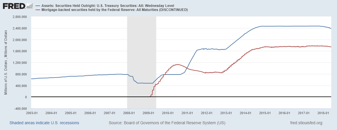 U.S. Federal Reserve – Treasury and Mortgage-Backed Securities Held Understanding the chart The Federal Reserve System, the central bank of the United States, buys and sells securities as it conducts open market operations or other programs. The Fed creates or "prints" money to purchase these securities, increasing the money supply when it does so. If at some point it begins to sell these securities, the money supply can be reduced. The "Federal Reserve Balance Sheet" includes these purchased securities and smaller amounts of other securities. As of March 2013, the total of these two types (Treasury $1.78 trillion and MBS of $1.09 trillion) was $2.87 trillion, up from $476 billion at the start of 2009. Prior to 2009, the Fed did not purchase MBS. The purchases were begun as an emergency measure to stabilize the housing market in 2009. The Federal Reserve releases details of its balance sheet in its weekly H.4.1 statistical release. As of March 21, 2013 the balance sheet included $3.25 trillion of securities.[1] The data for the chart comes from the indicated FRED database series in the chart (TREAST and MBST). An older Wikipedia chart that shows the categories graphically is: File:Consolidated Statement of Condition of all Federal Reserve Banks-ASSETS.gif